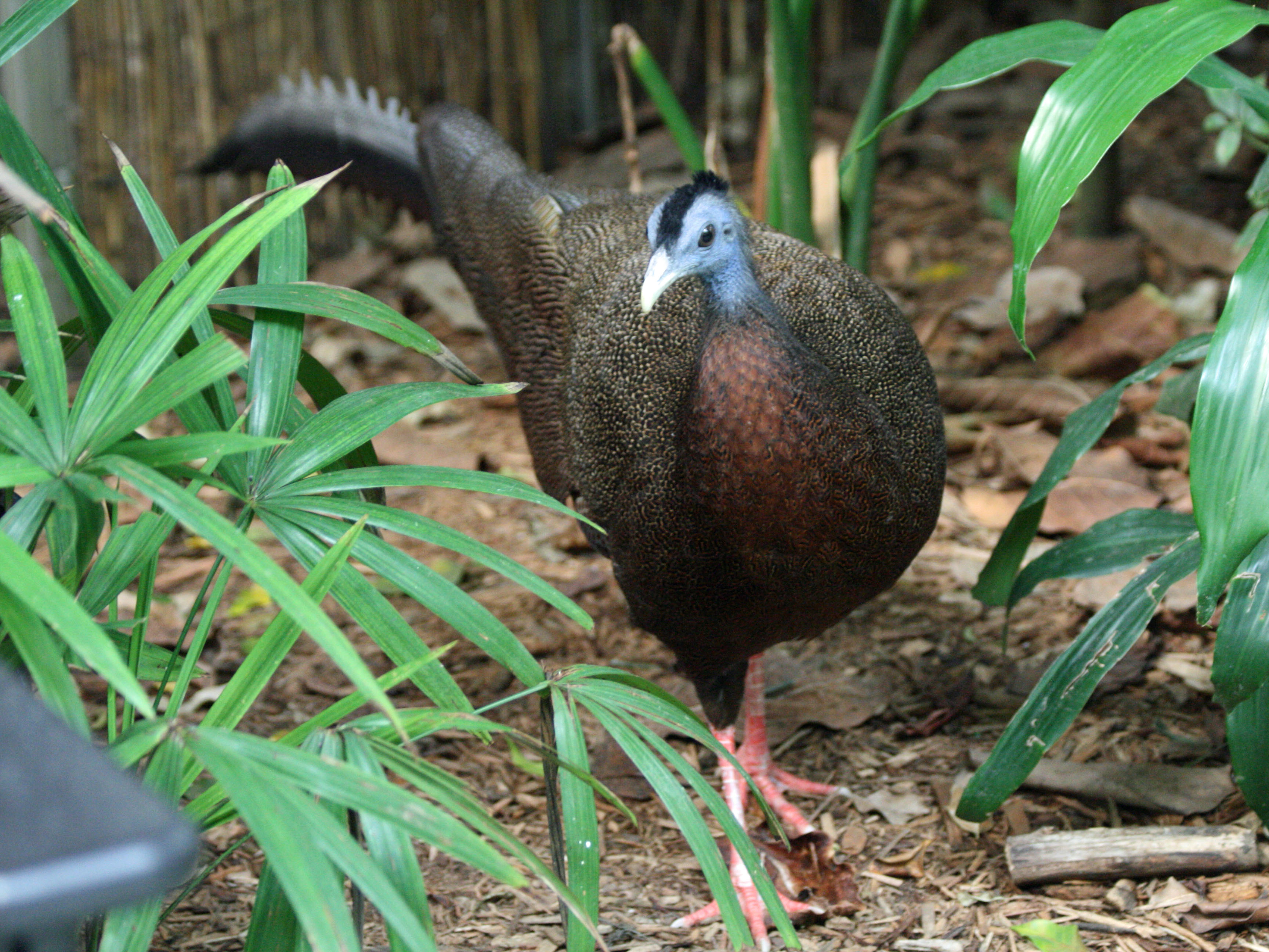 Great Argus Pheasant (Argusianus argus) - National Aviary in Pittsburgh, Pennsylvania.